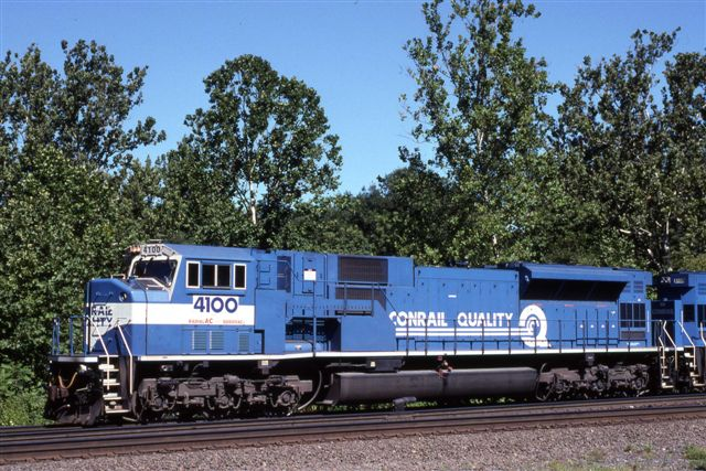 5,000 horsepower EMD SD80MAC 4100 in Conrail livery.